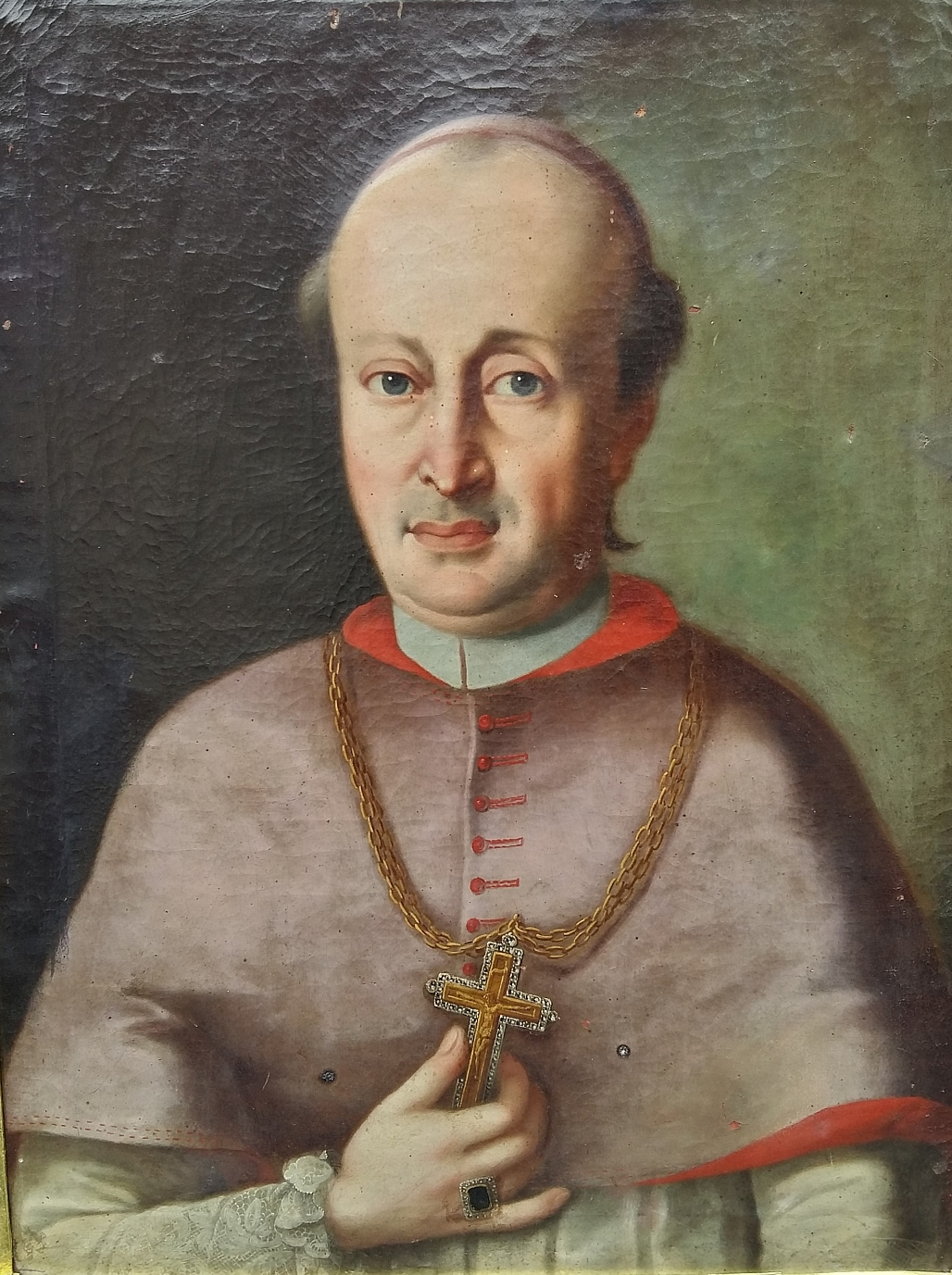 Painting of Bishop Ignác Batthyány